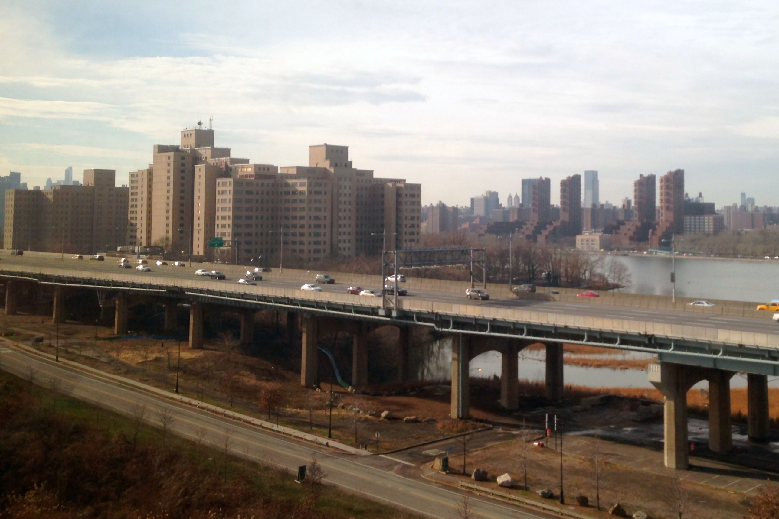 The Manhattan Psychiatric Center complex on Ward's Island, Manhattan. In the foreground is part of the Triborough Bridge. The building closest to the camera may be the Kirby Forensic Psychiatric Center, a maximum security mental hospital.